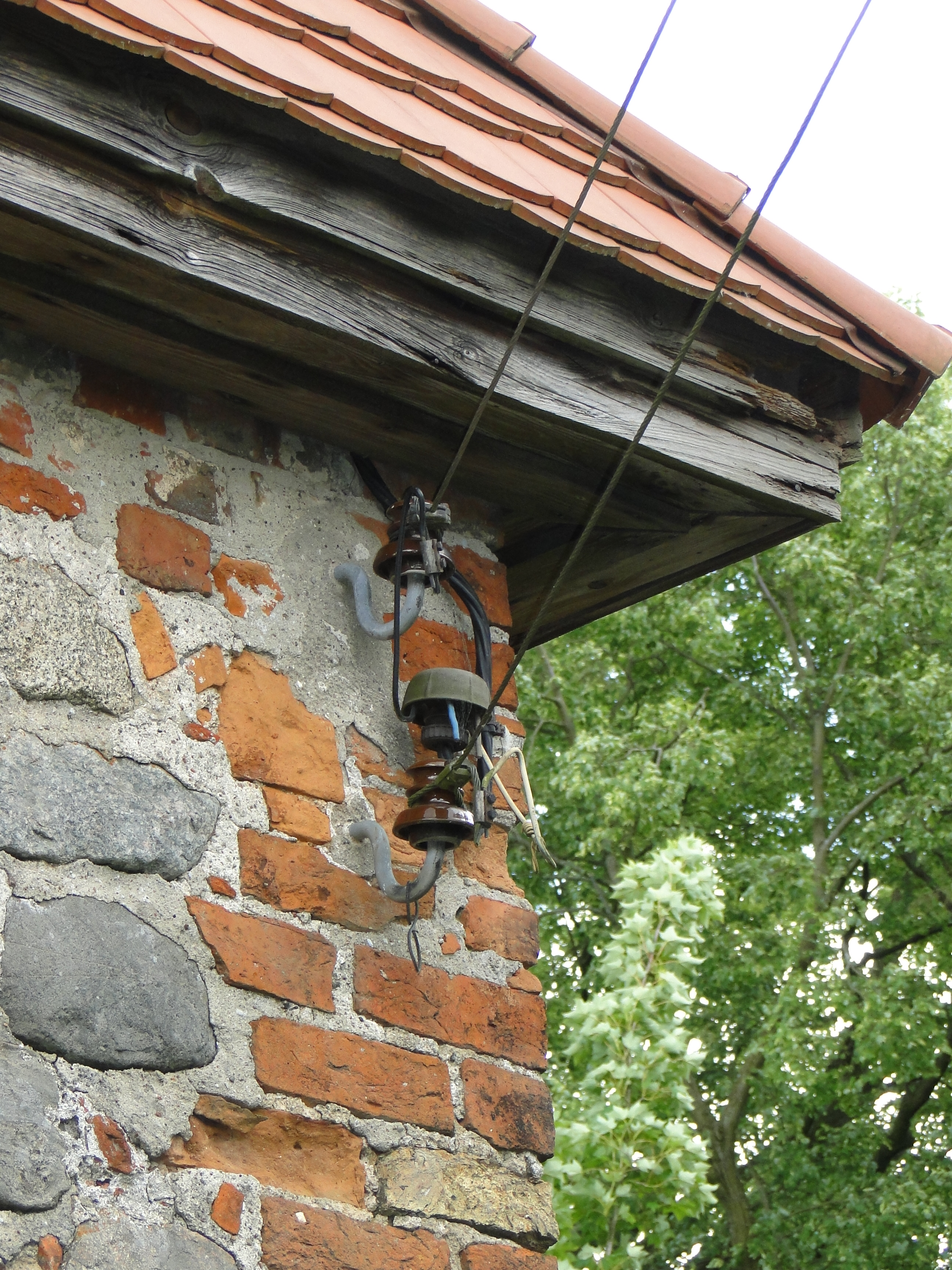 Church in Groß Niendorf, district Ludwigslust-Parchim, Mecklenburg-Vorpommern, Germany